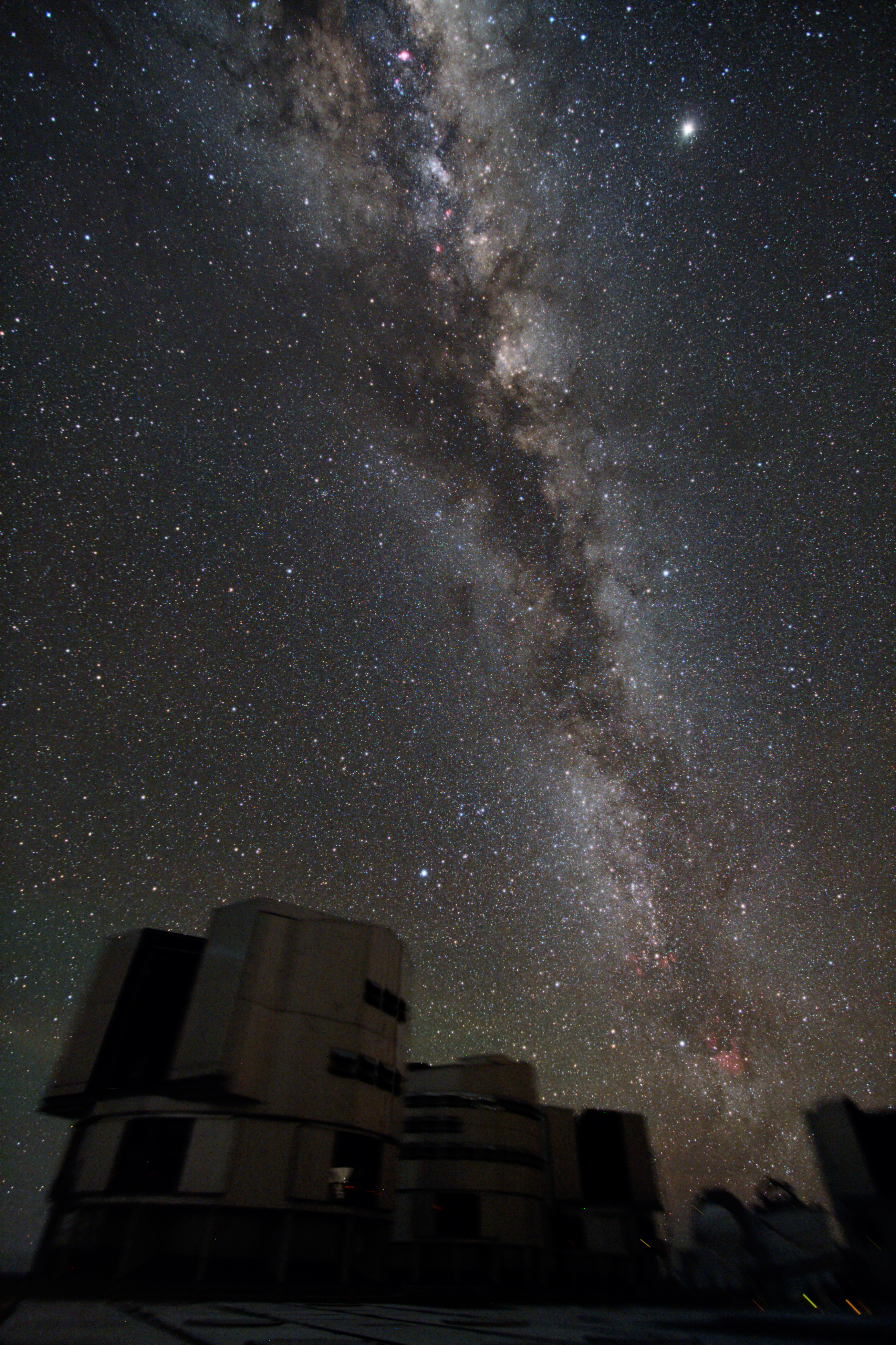 The Milky Way, shining in its full splendour on top of the four Unit Telescopes and one of the Auxiliary Telescopes of ESO’s Very Large Telescope (VLT)